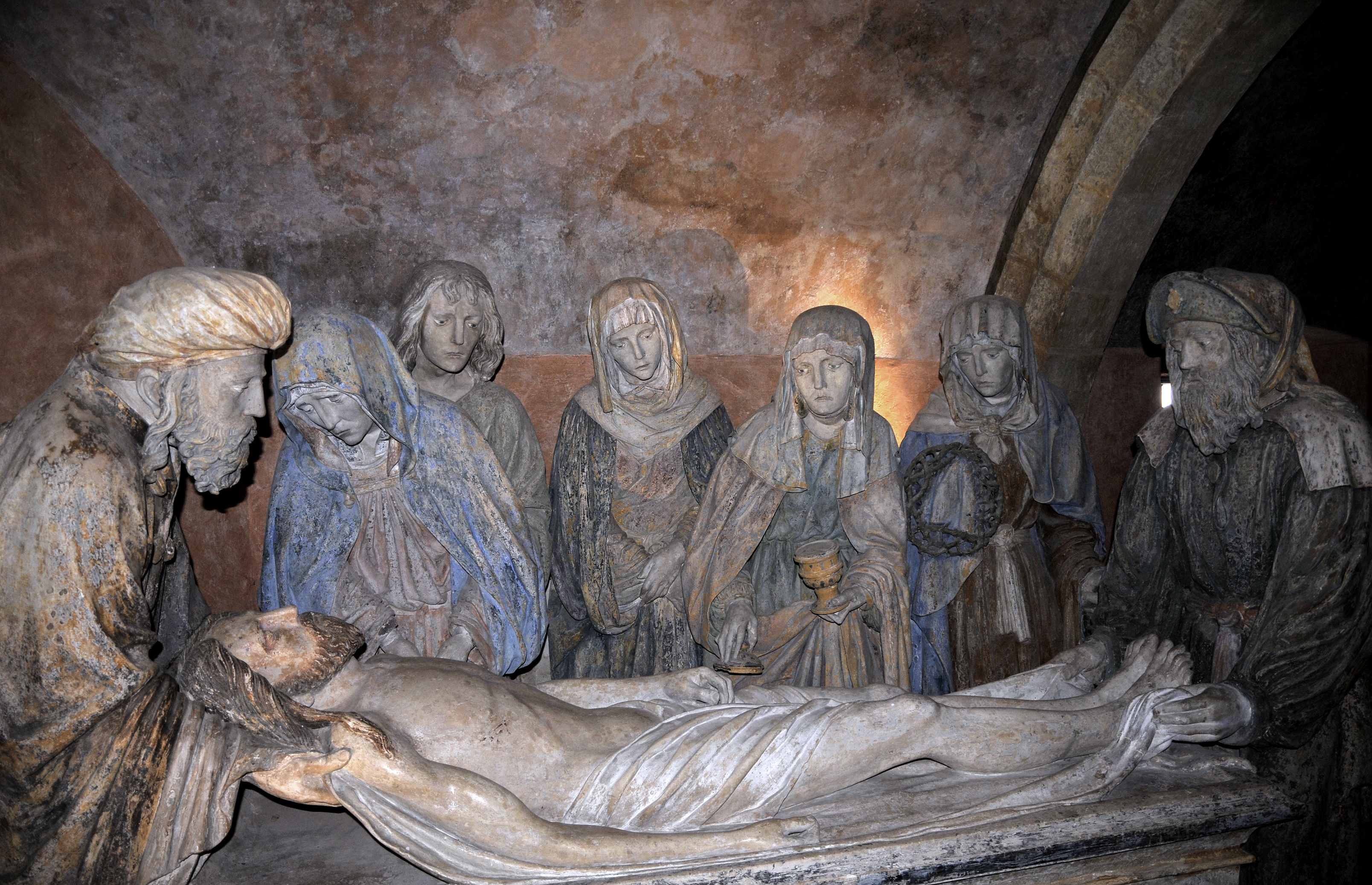 Entombment of Christ - Maître de Chaource 1515-1520